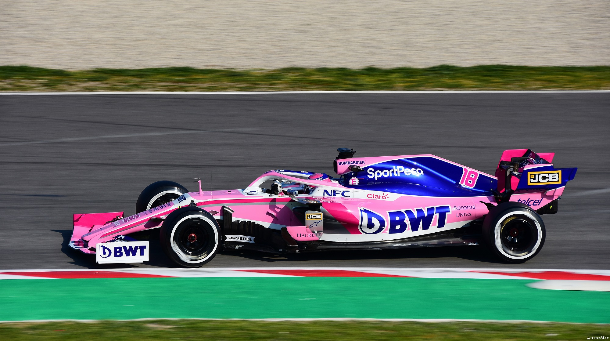 2019 Formula One tests Barcelona, Stroll.